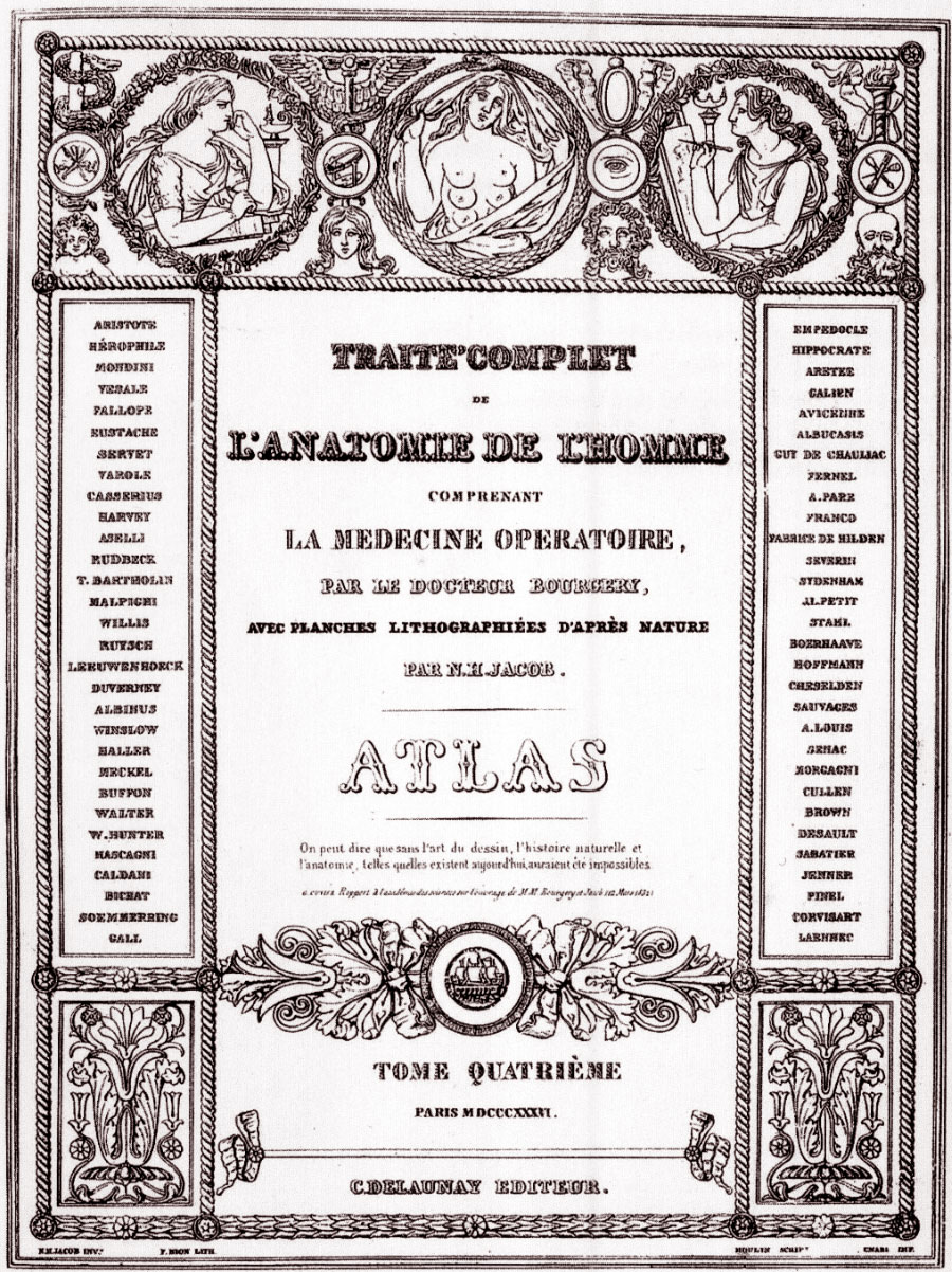 Lithographed Title page, of Traité complet de l’anatomie de l’homme (1836) by J. M. Bourgery and N. H. Jacob